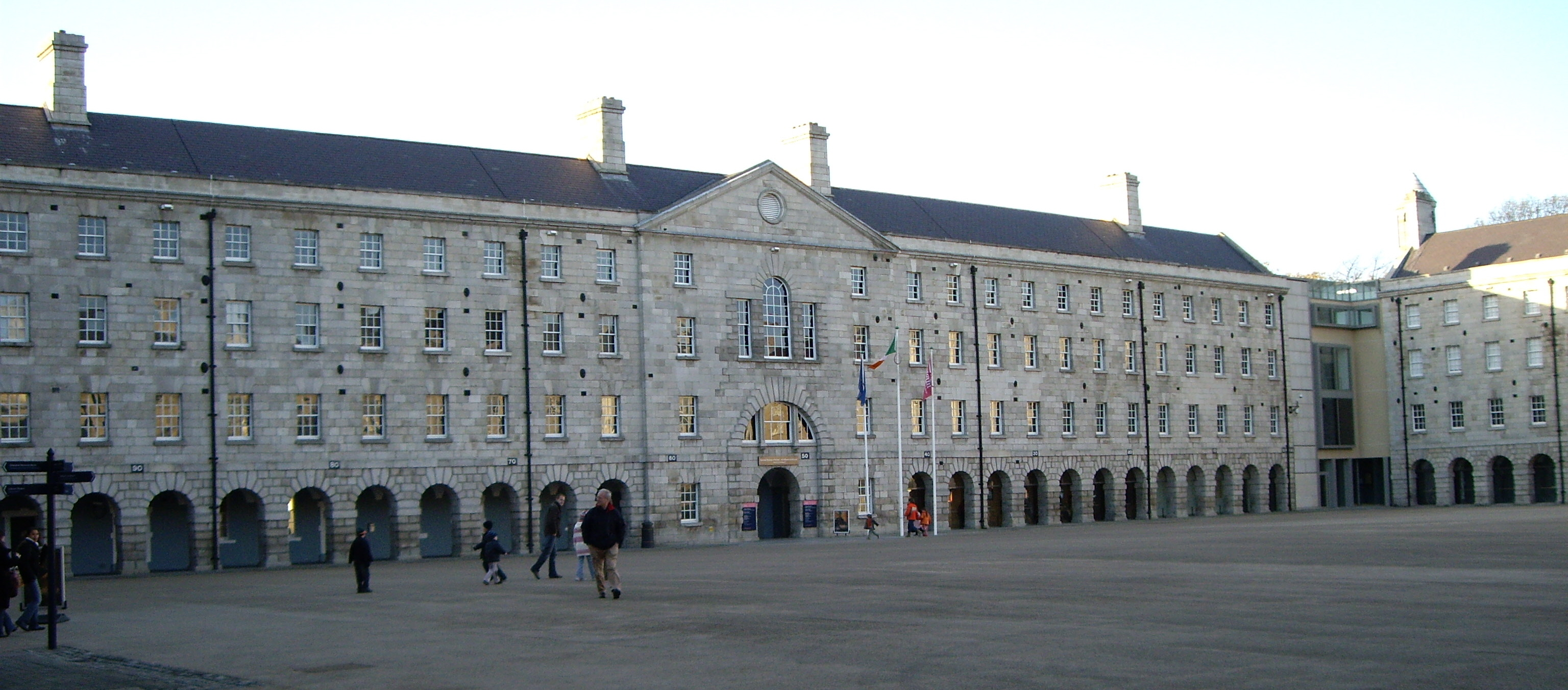 Collins Barracks (Dublin) courtyard, west side